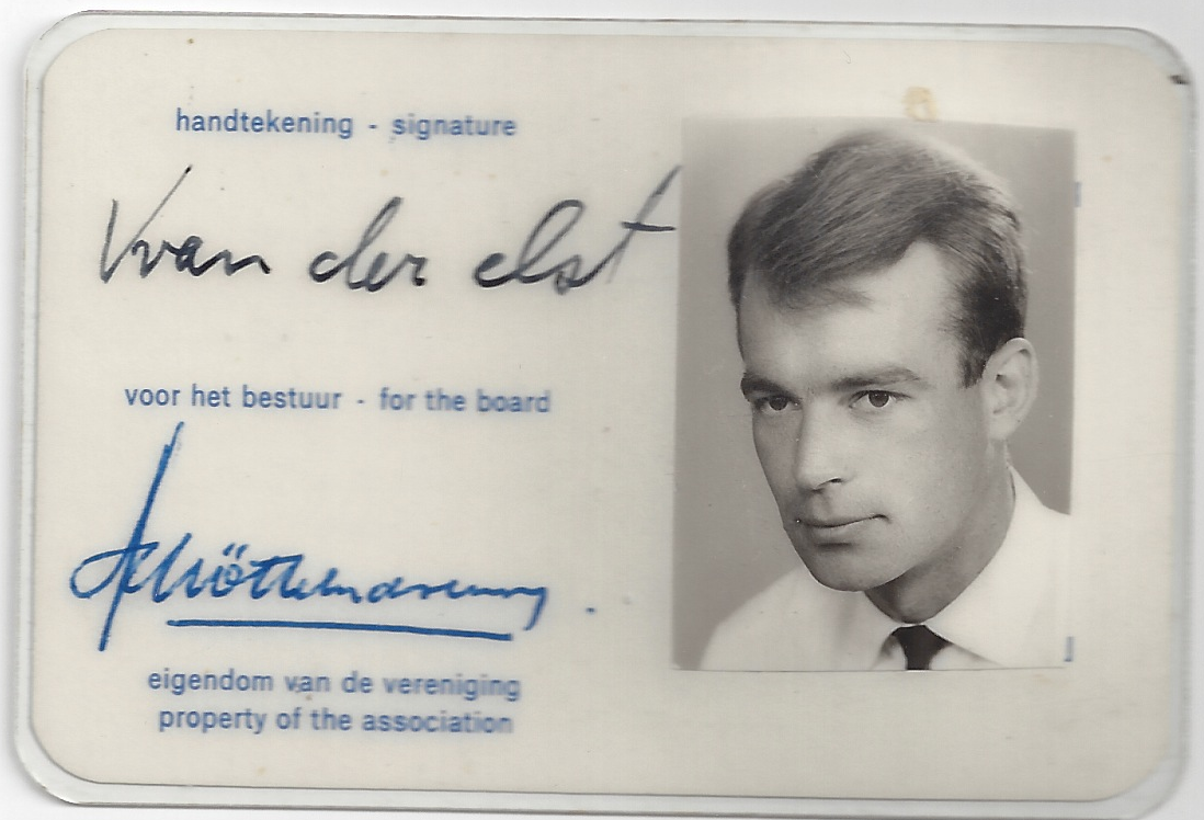 Front Dutch pilot association membership card